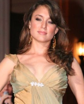 Stephanie de Roux competing at Miss Earth 2006